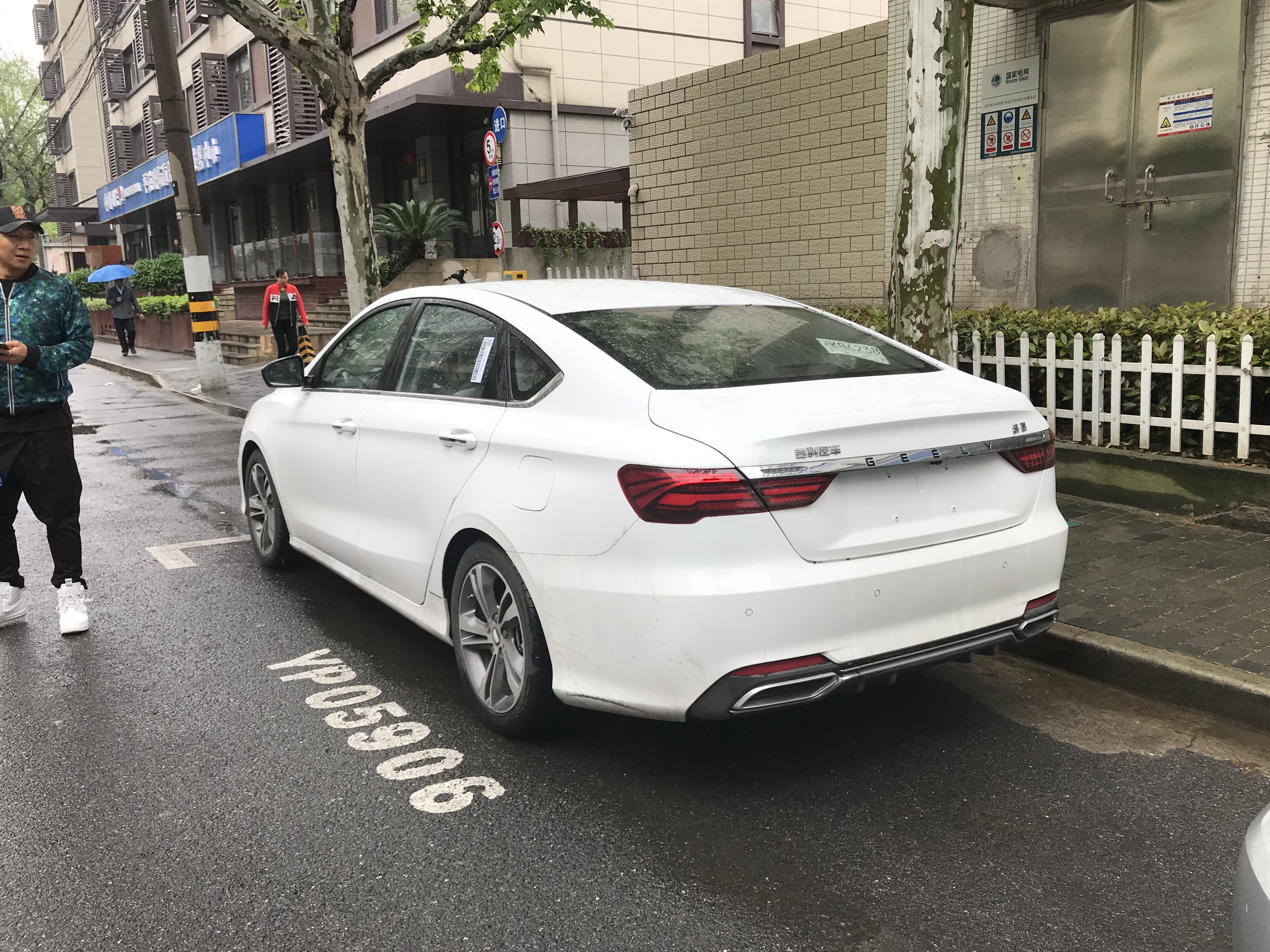 Geely Binrui rear